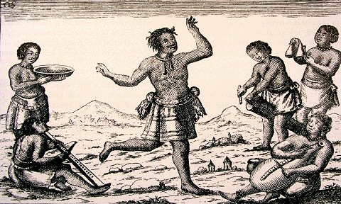 From Giovani Antonio da Montecuccolo Cavazzi in Istorica descrizione de’ tre regni : Congo, Matamba ed Angola, 1687